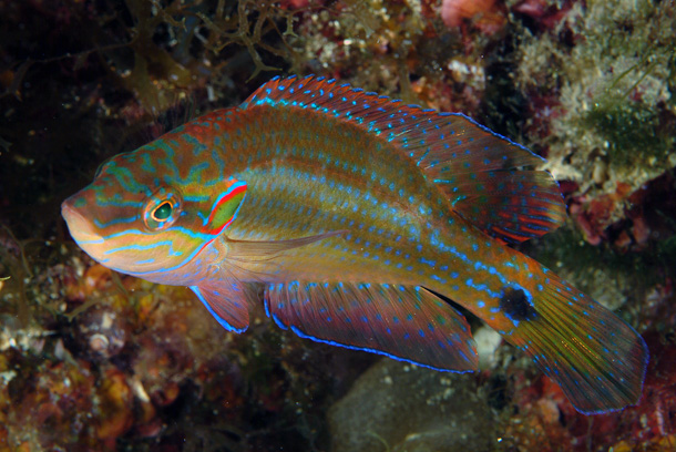 Male Symphodus ocellatus photographed near Tuscany coasts (Italy). Photo by Stefano Guerrieri.